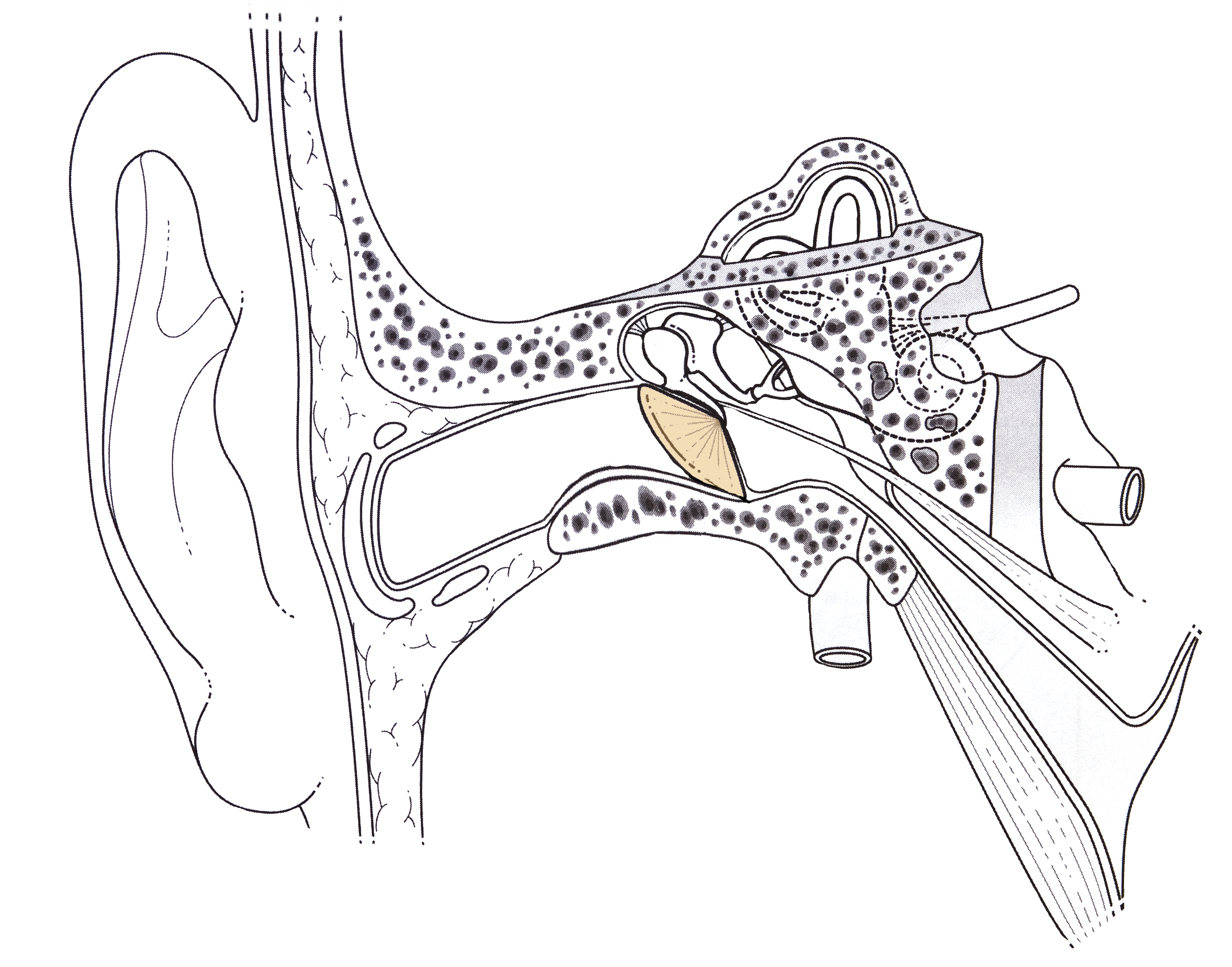 eardrum Schema